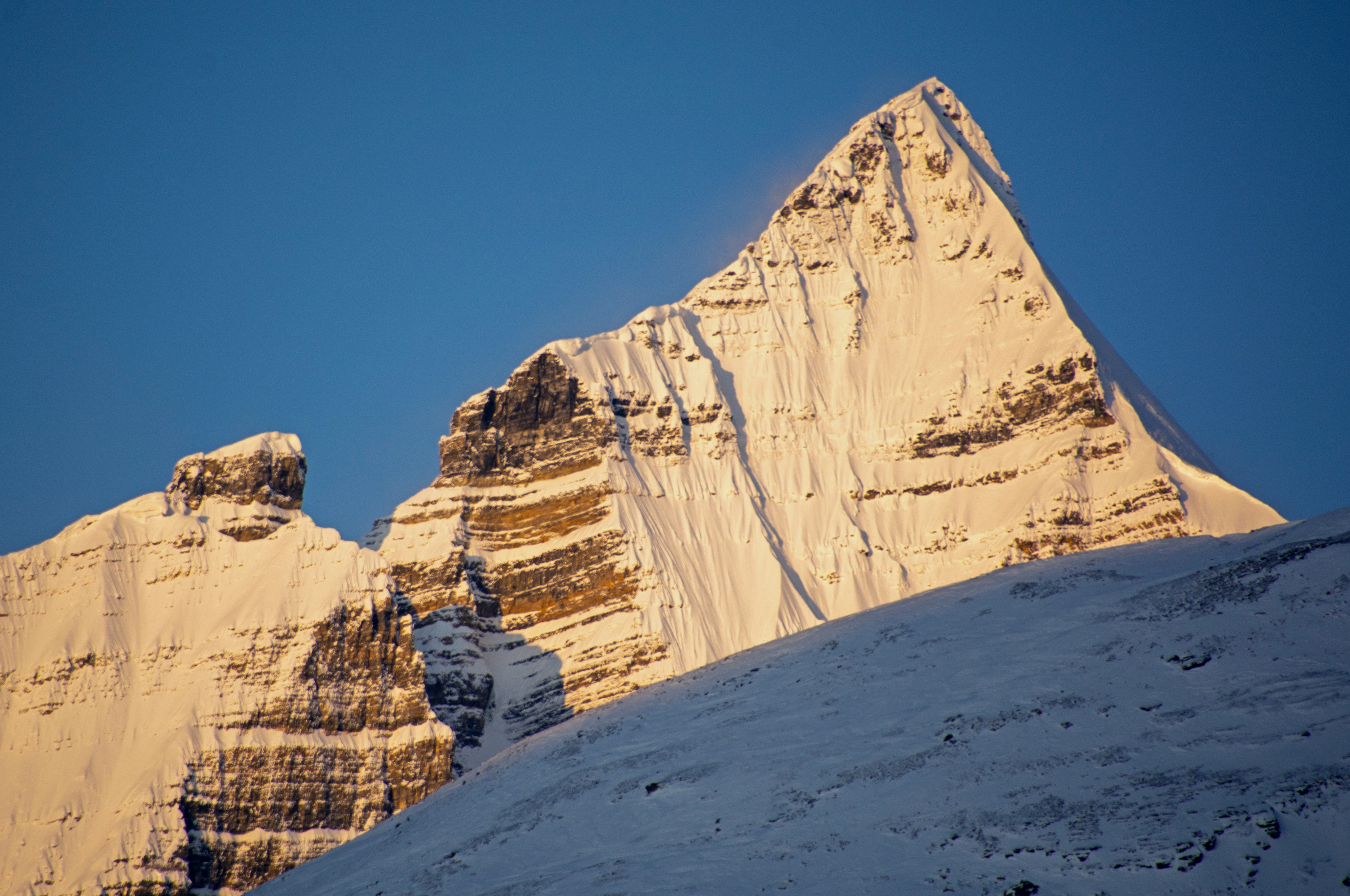 Whitehorn mtn